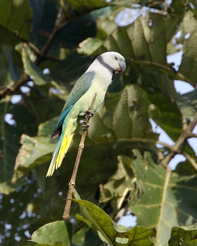 Malabar Parakeet (Psittacula columboides). A female at Thattekad, Kerala, India.